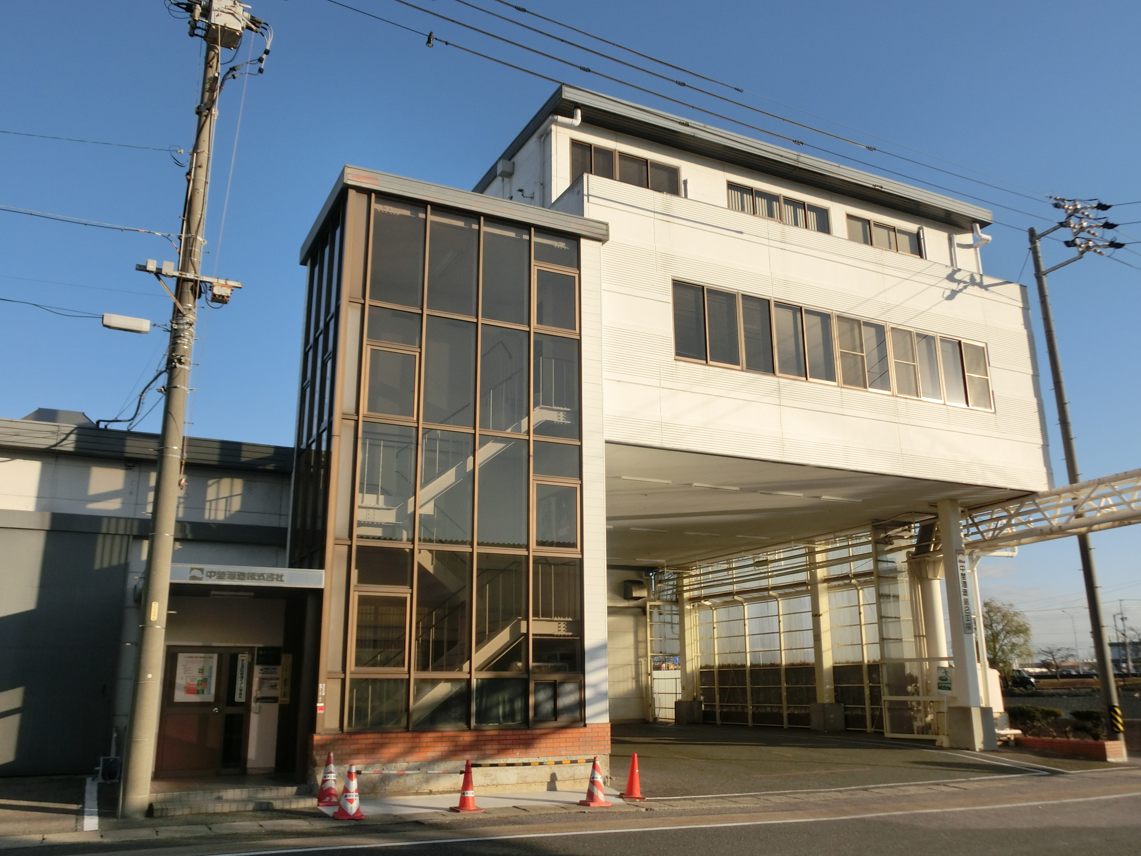 Nakano Sake Brewery Head Office